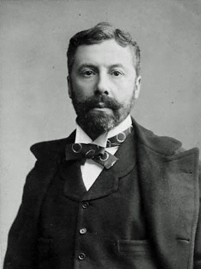 Photo of Richard D'Oyly Carte by Ellis & Walery, scanned from page 6 of the 1914 edition of Cellier & Bridgeman's Gilbert and Sullivan and Their Operas